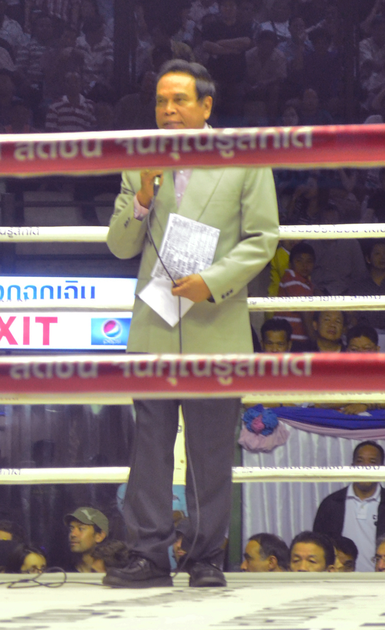 Samingkhao